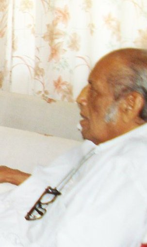 Image of cartoonist Toms, created from Wikimedia image File:InterviewTOpsd.jpg